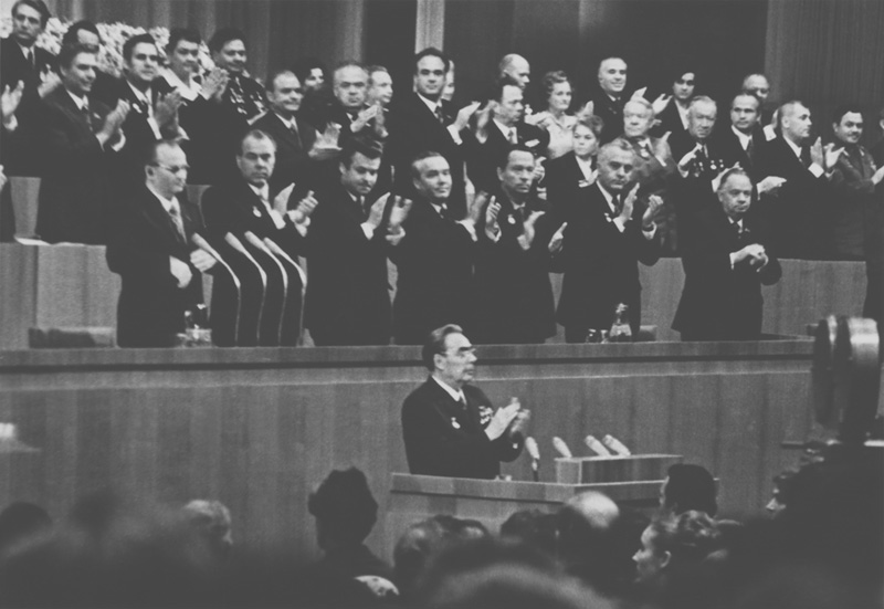 50 years of the Moldavian S.S.R. (1974).